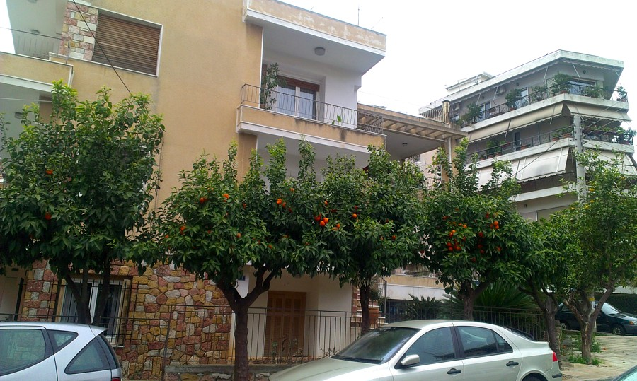 nea filothei